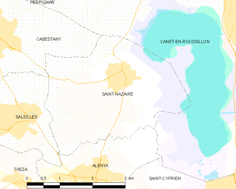 Map of French municipality